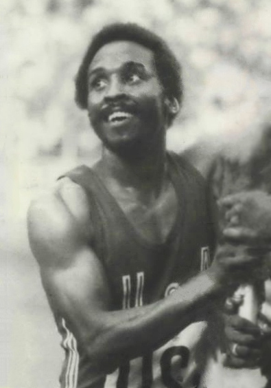 1976 Press Photo Winning US Olympic 1600 Relay Team